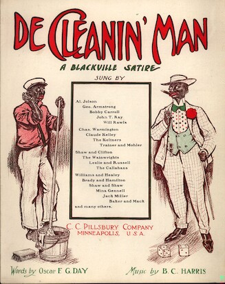 "De cleanin' man: a Blackville satire" by Oscar F. G. Day and B. C. Harris